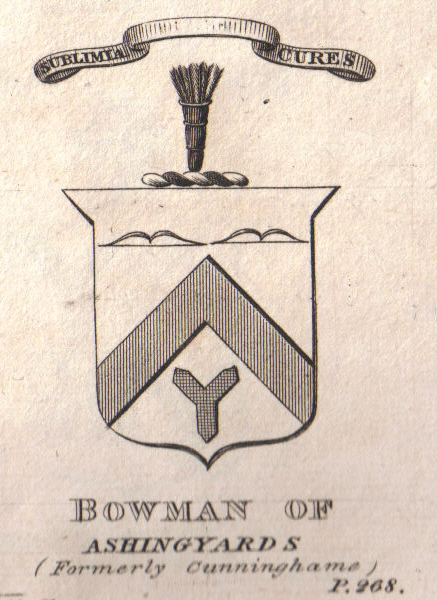 Coat of Arms of the Bowmans of Ashinyards (Ashgrove), Kilwinning, North Ayrshire, Scotland.